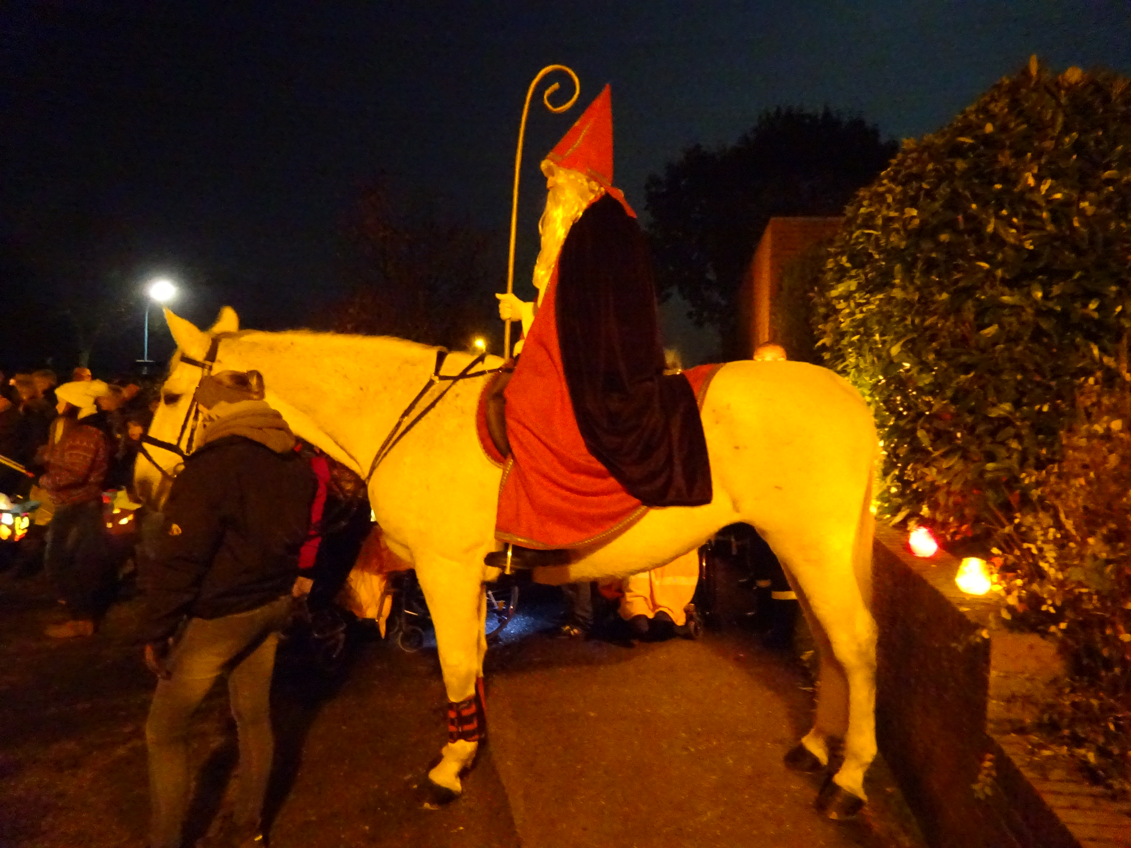 St. Martin's day 2016 in Huisberden (Bedburg-Hau), Germany